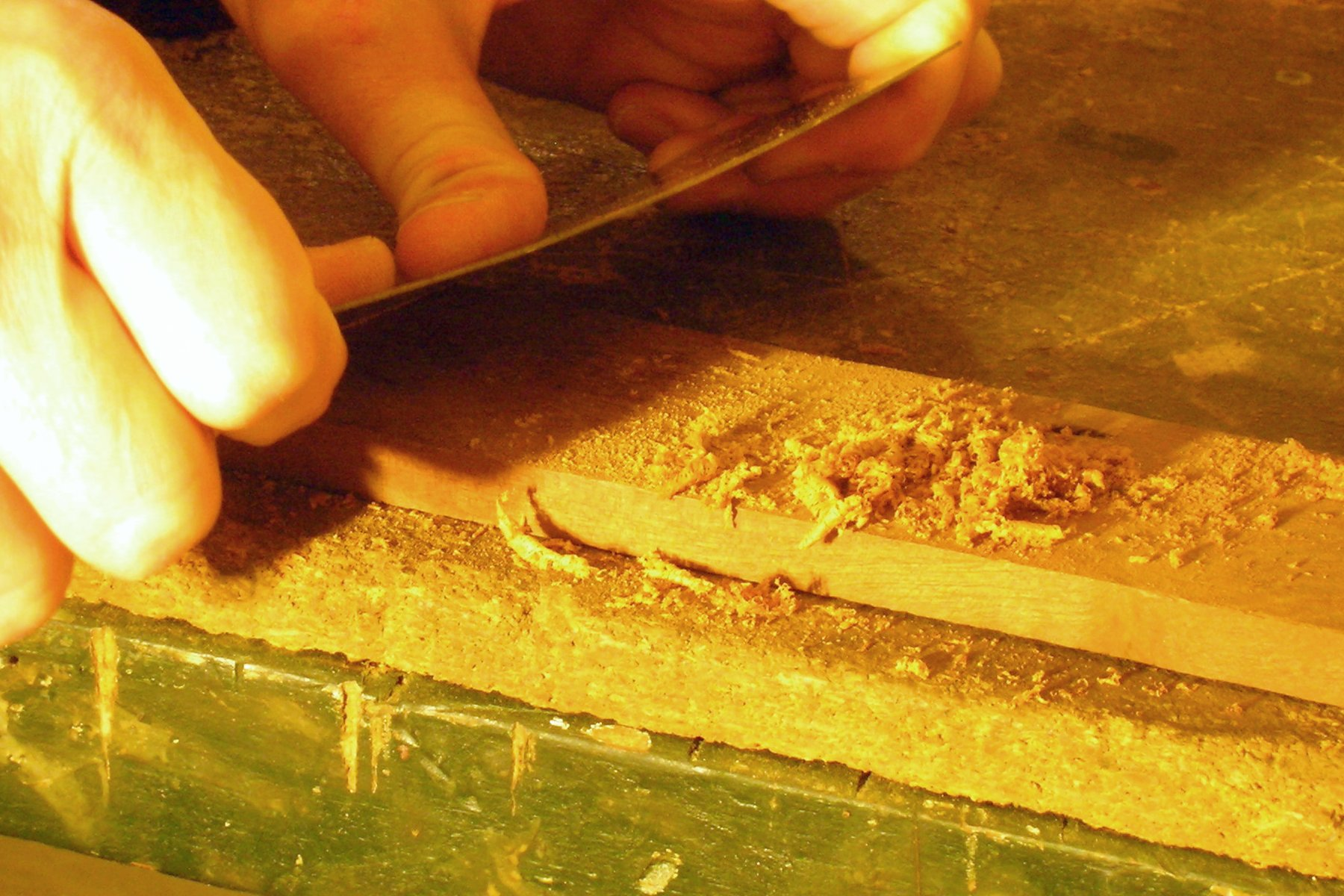 Card scraper in use